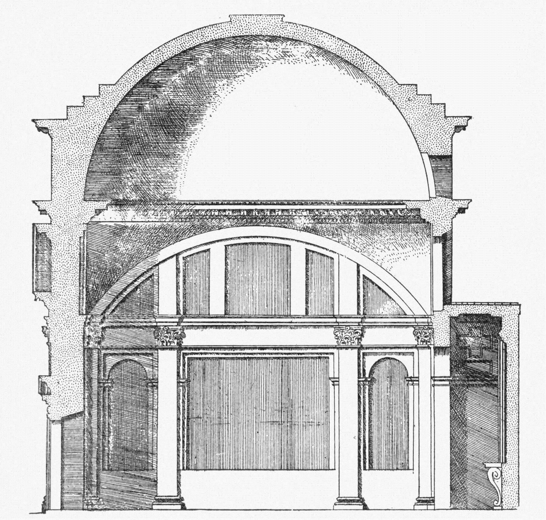 Scan from book 'Character of Renaissance Architecture'